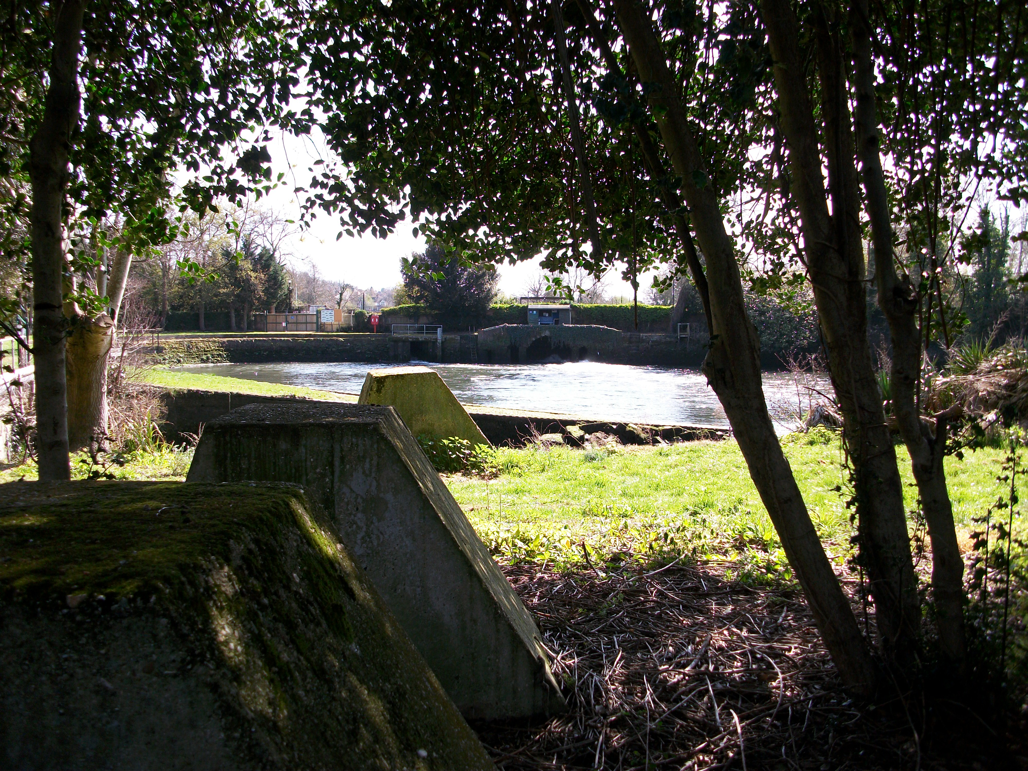 Salmon Pool fed by Monks Brook. The concrete structures in the foreground are "Dragons' Teeth" : tank-traps built in 1940 to repel any German invasion.